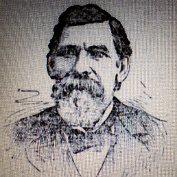 Harrison E. Havens, Missouri Congressman